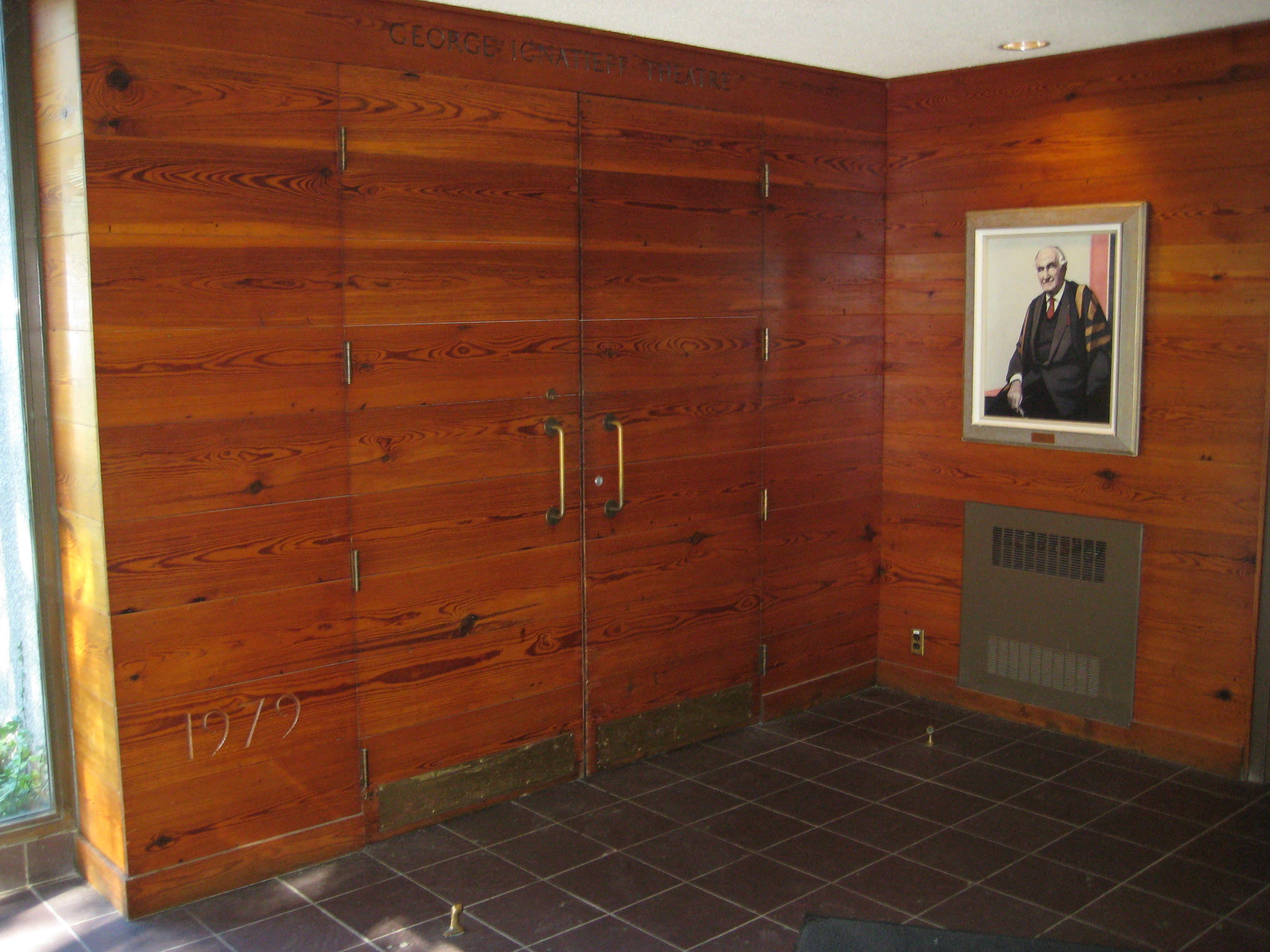 Entrance to the George Ignatieff Theatre